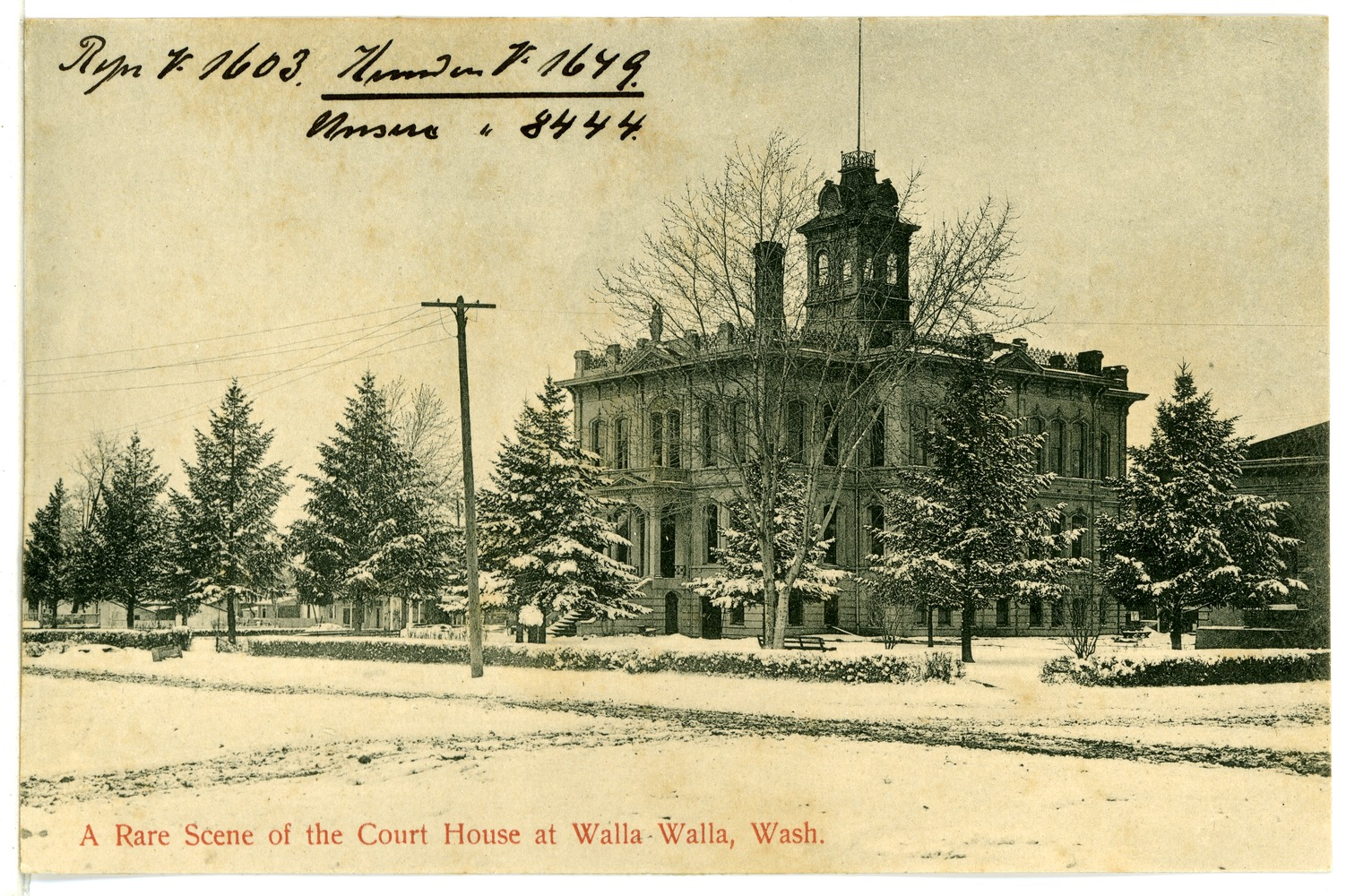 This postcard is from publisher Brück & Sohn in Meißen ( This postcard has a unique number 08444 and is available in a higher resolution at the publisher. This images was uploaded in a cooperation project between Wikipedians and the publisher.